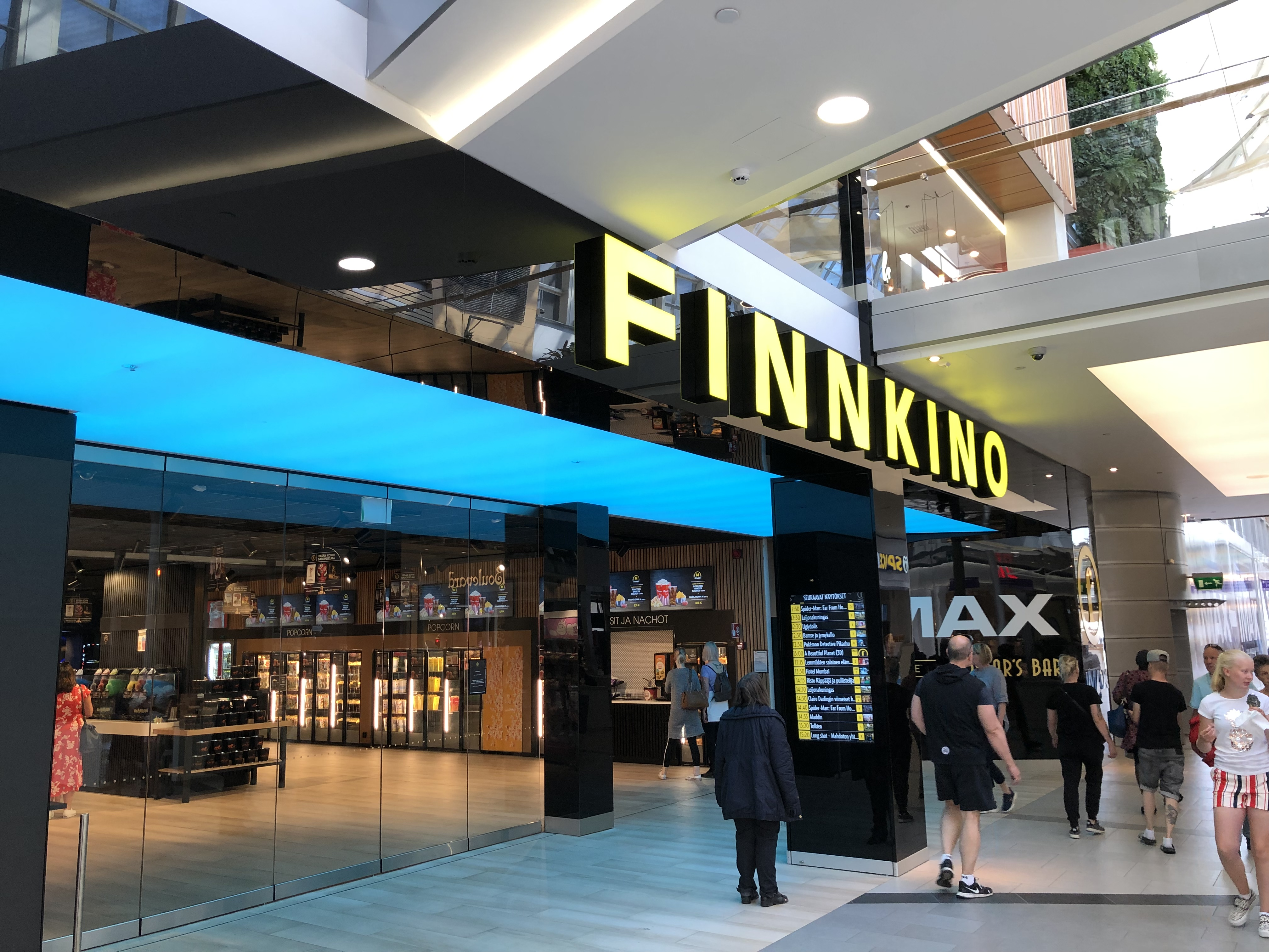 Finnkino Itis in July 2019.